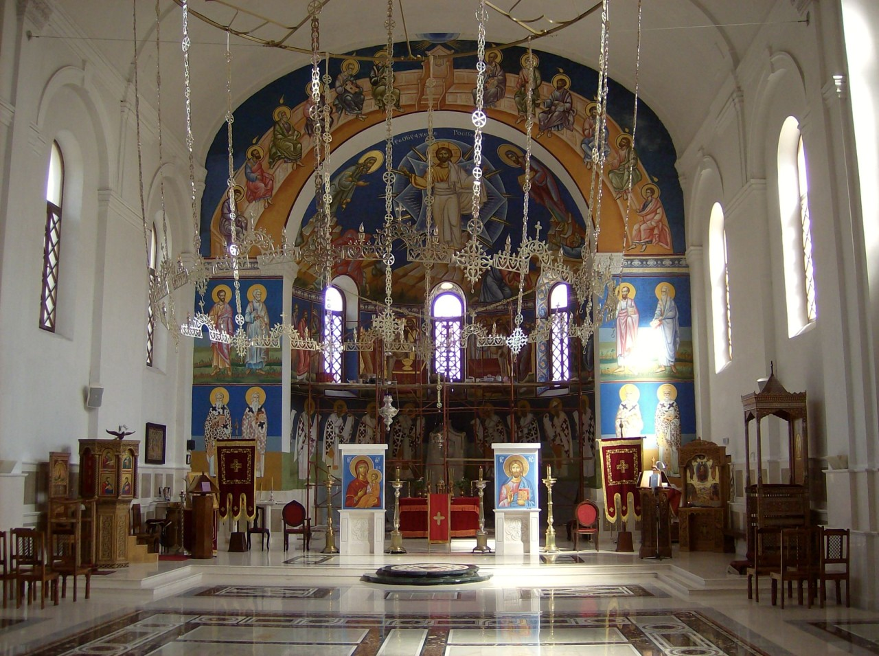 Trebinje